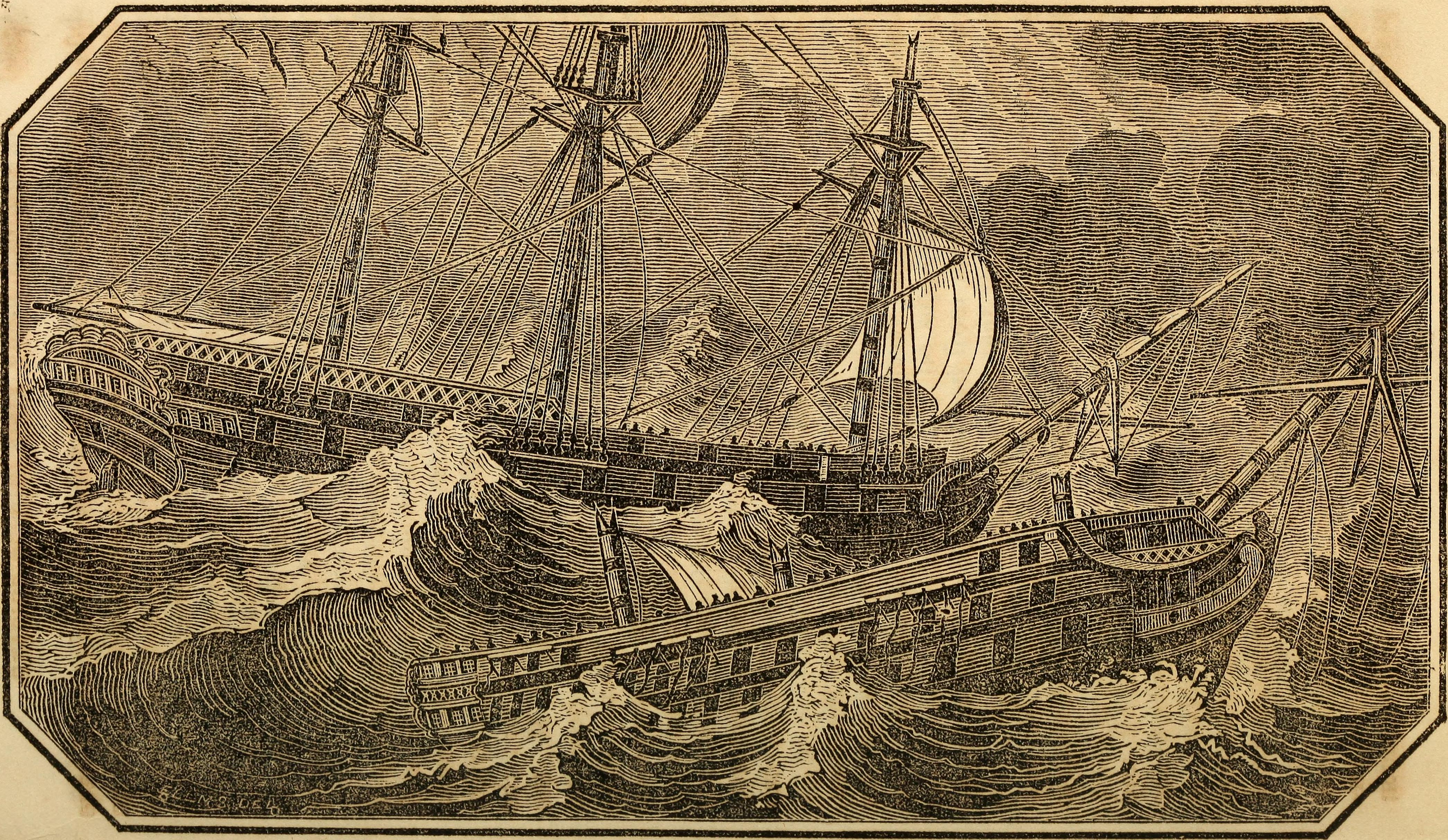 During a July 1805 hurricane, a wave almost sends HMS St George (back) crashing into HMS Centaur.